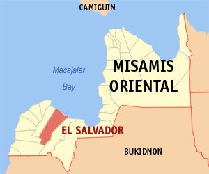 Map of the Misamis Oriental showing the location of El Salvador